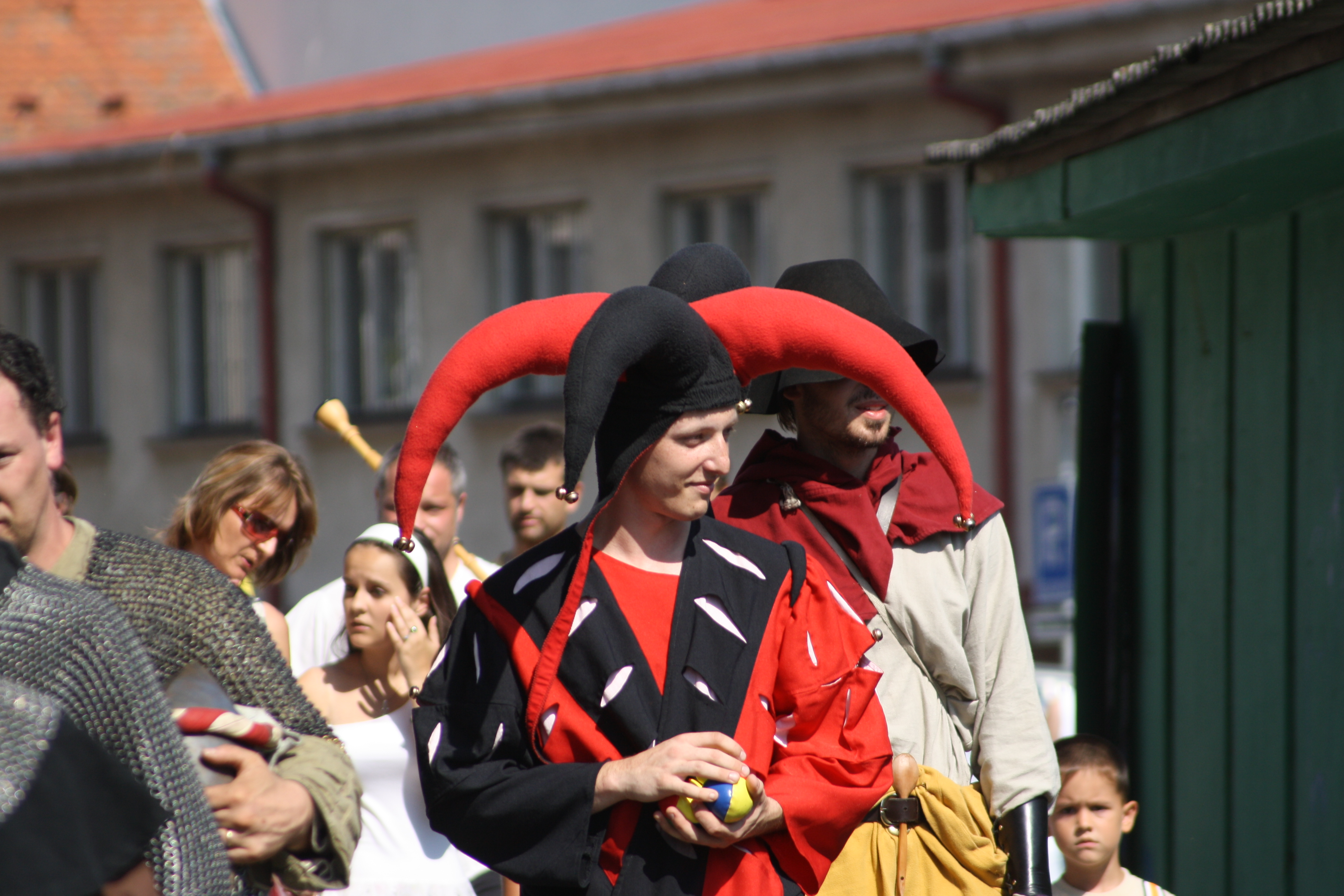 Joker at parade at UNESCO celebrations 2009 in Třebíč, Czech Republic.